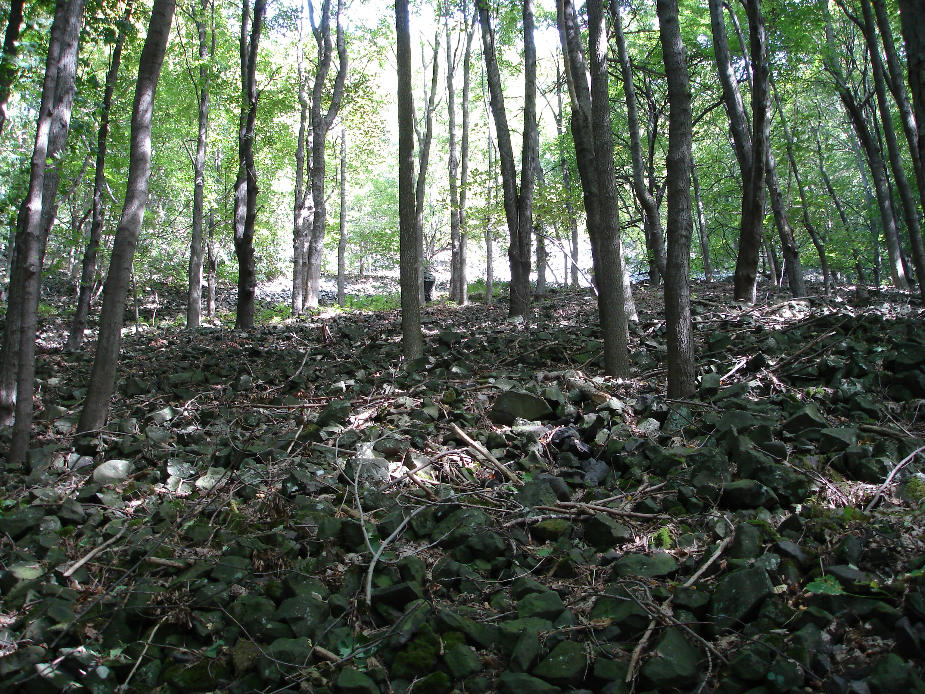 Mountain Zámecký vrch in České středohoří, Czech Republic